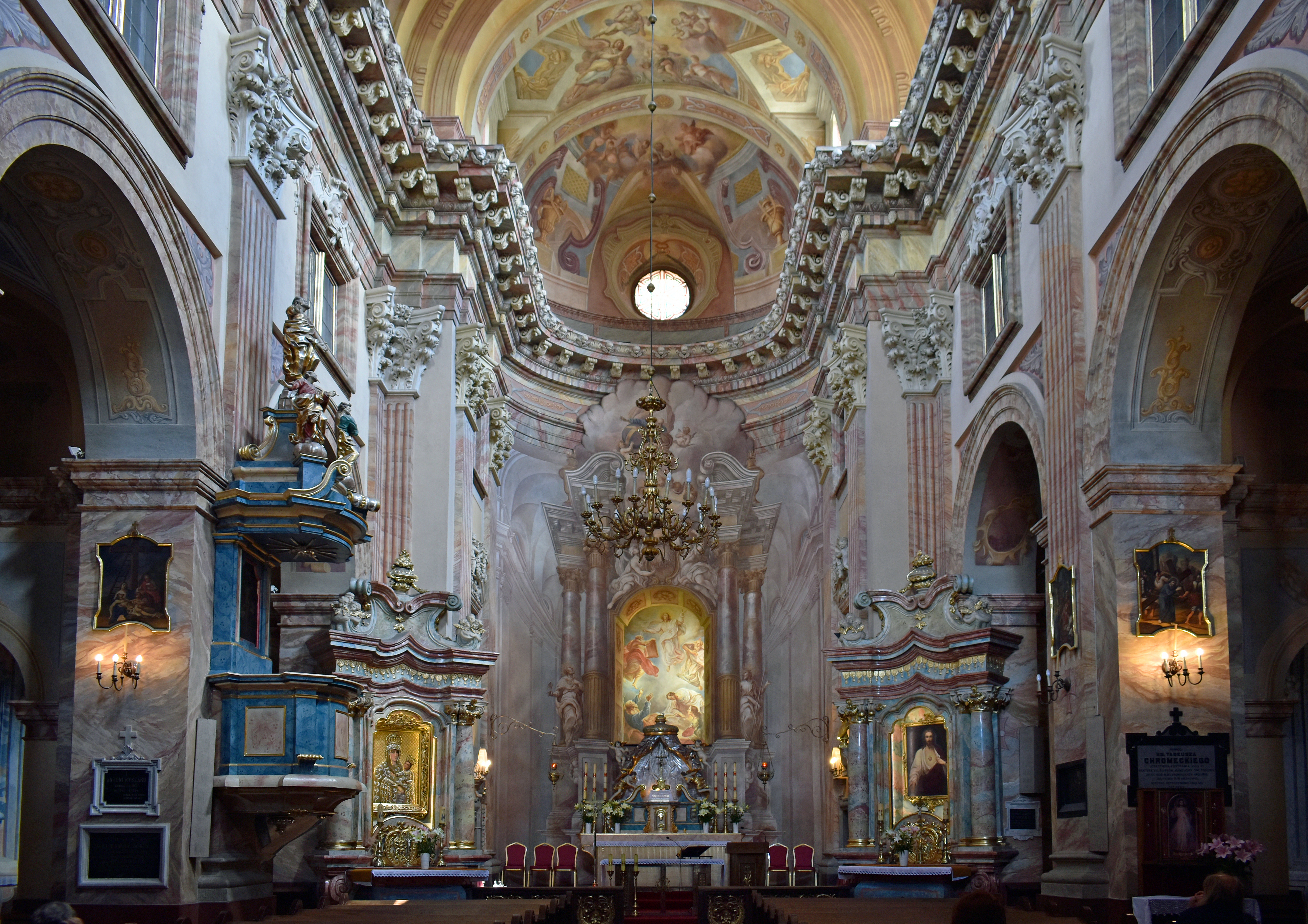 Church of the Transfiguration of Our Lord (interior), 2 Pijarska street, Old Town, Krakow, Poland